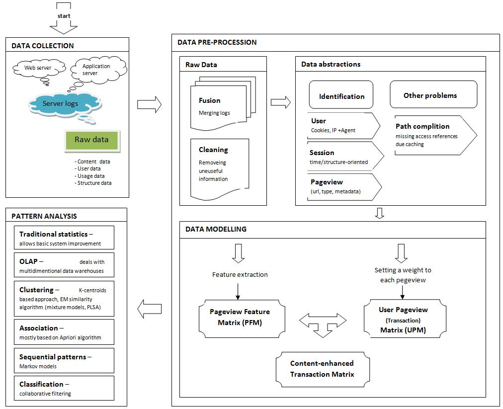 Web Usage Mining typical lifecycle